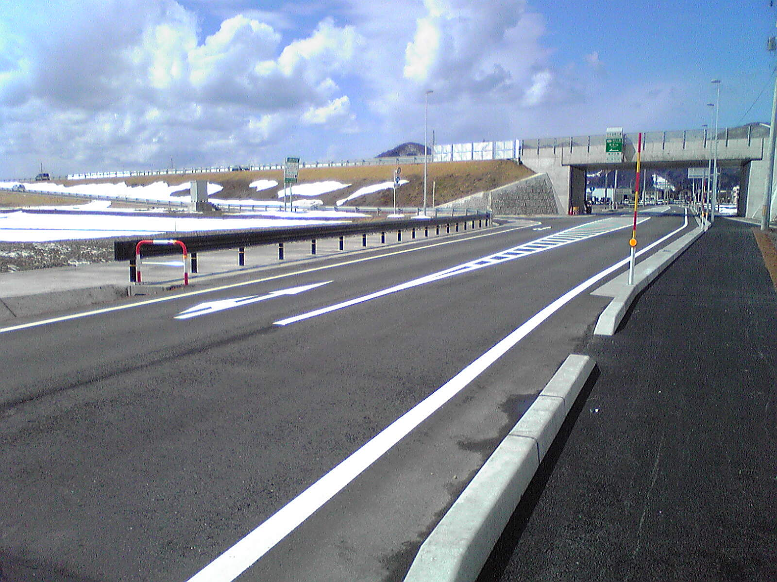 Asahi-Miomote Interchange on Nihonkai-Tohoku Expressway, Japan, from the east side of the interchange